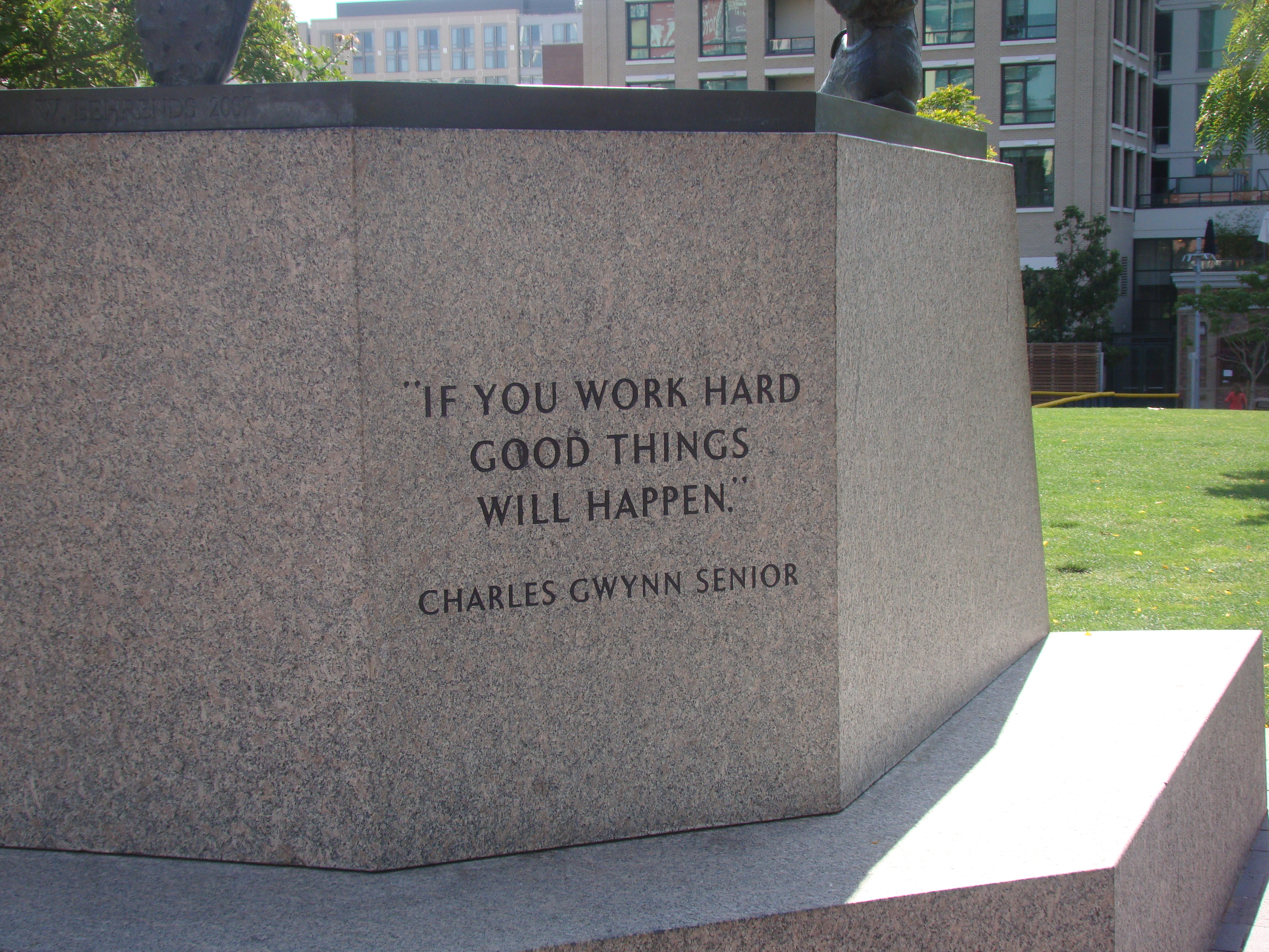 Inscription: "If you work hard good things will happen" - Charles Gwynn Senior - on the base of the statue of Tony Gwynn in Park at the Park, a publick park adjacent to Petco Park in San Diego, California. Petco Park is a baseball ground and is the new home of the San Diego Padres. Tony Gwynn played 20 seasons in Major League Baseball (MLB) for the Padres.